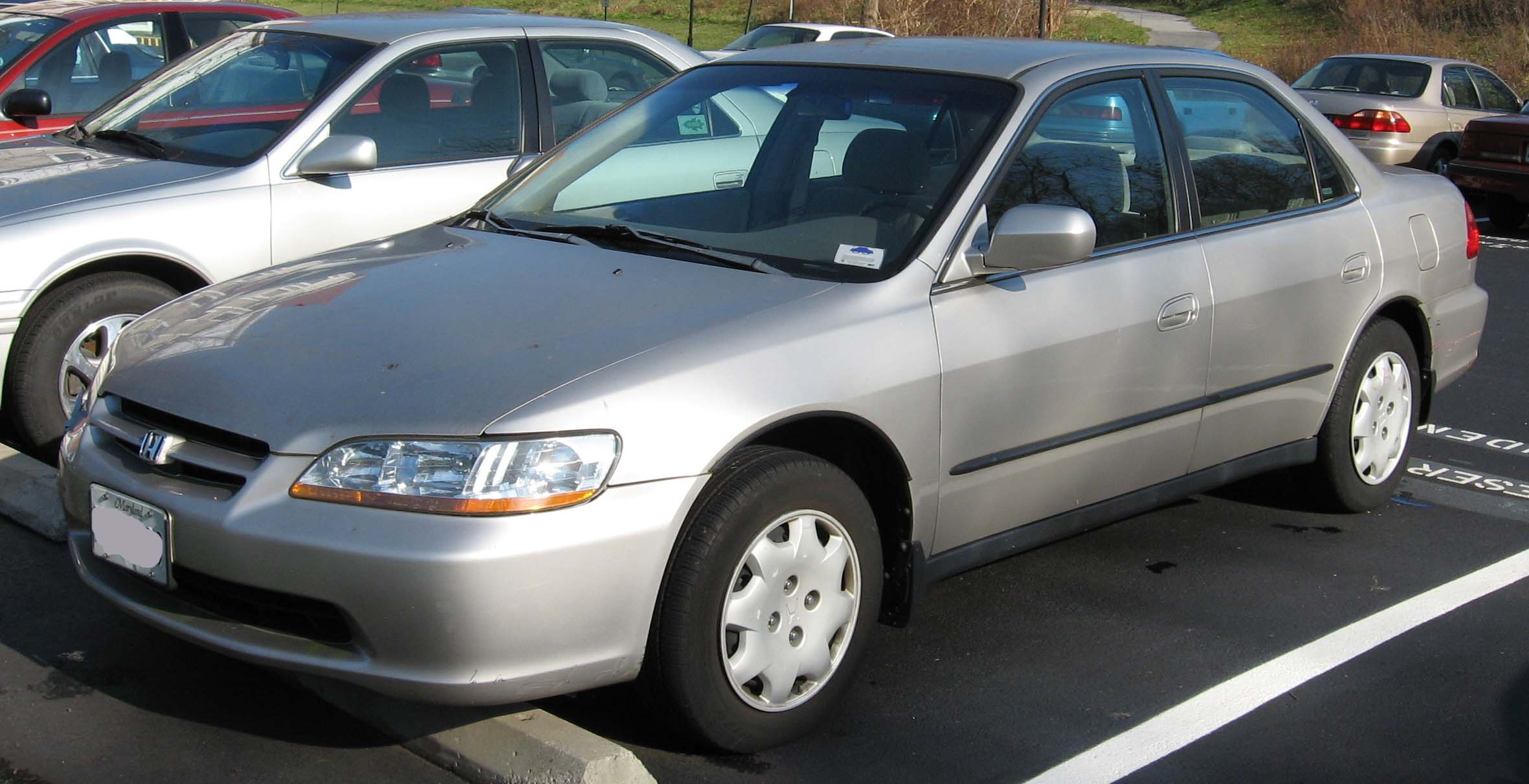 1998-2000 Honda Accord photographed in USA.